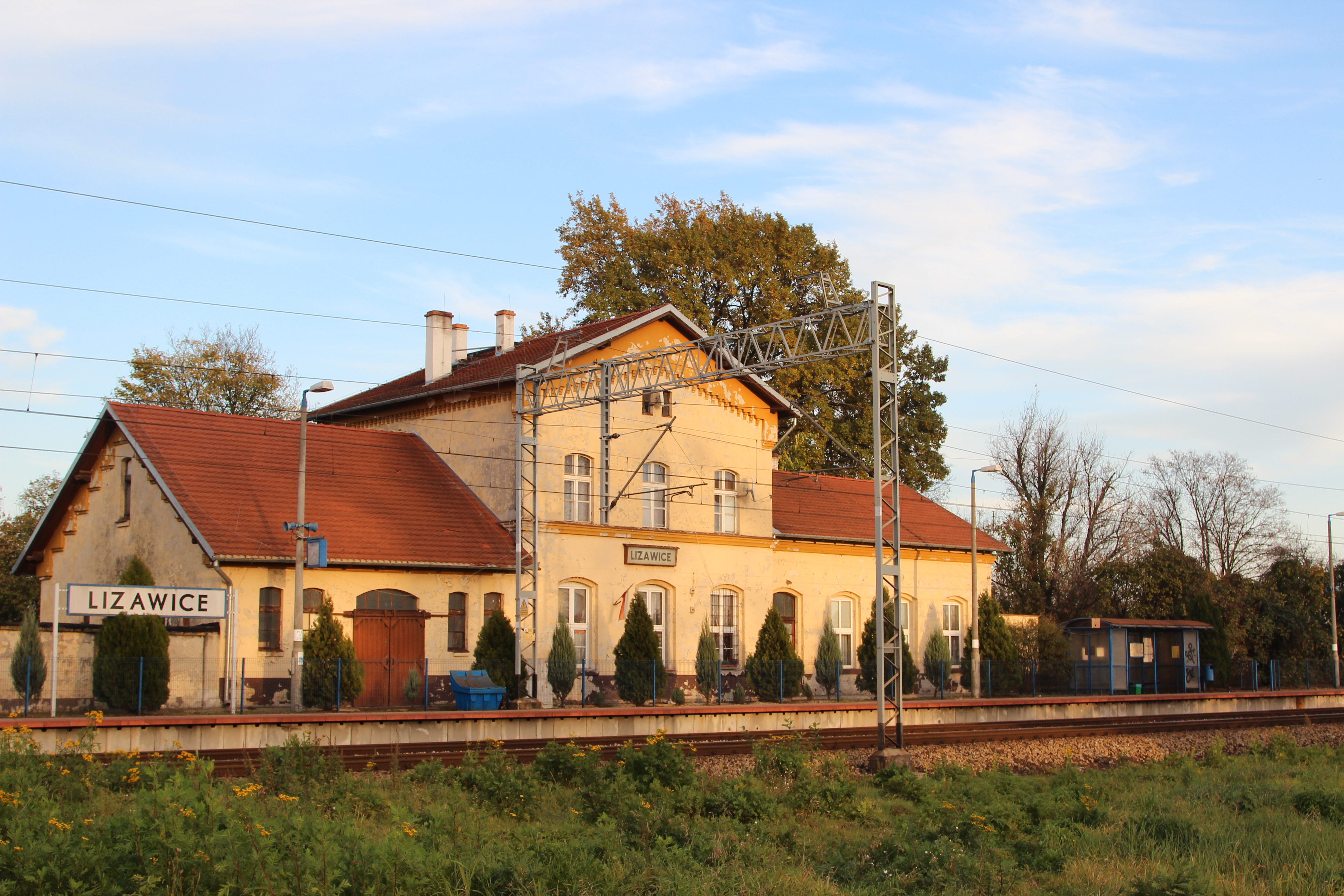 Train stop in Lizawice